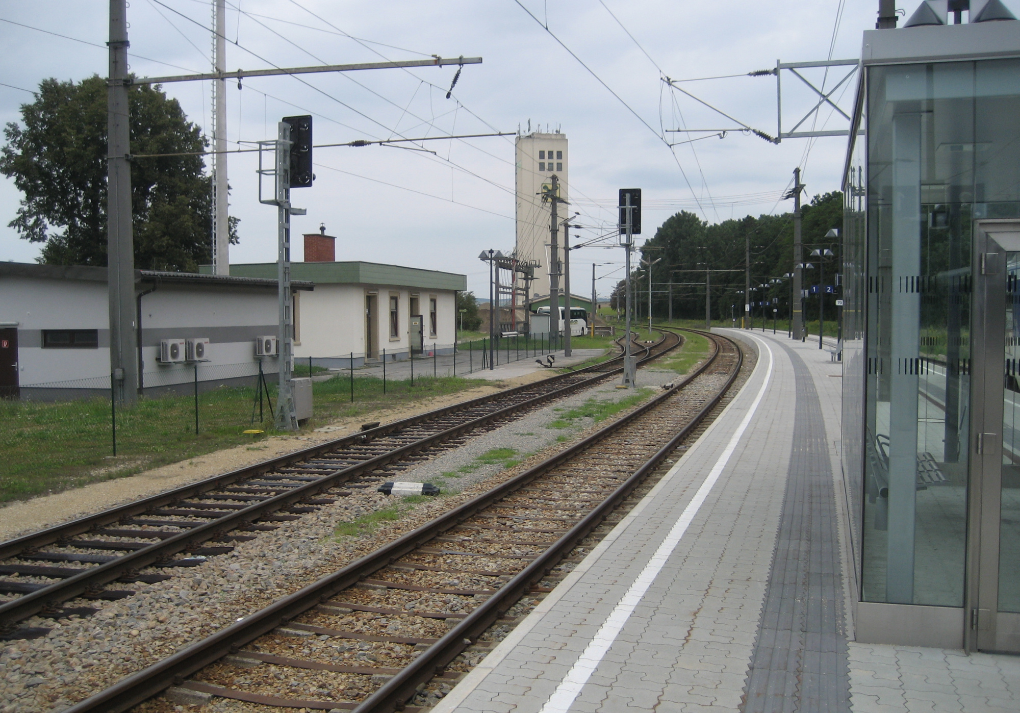 Train station Sierndorf, Lower Austria